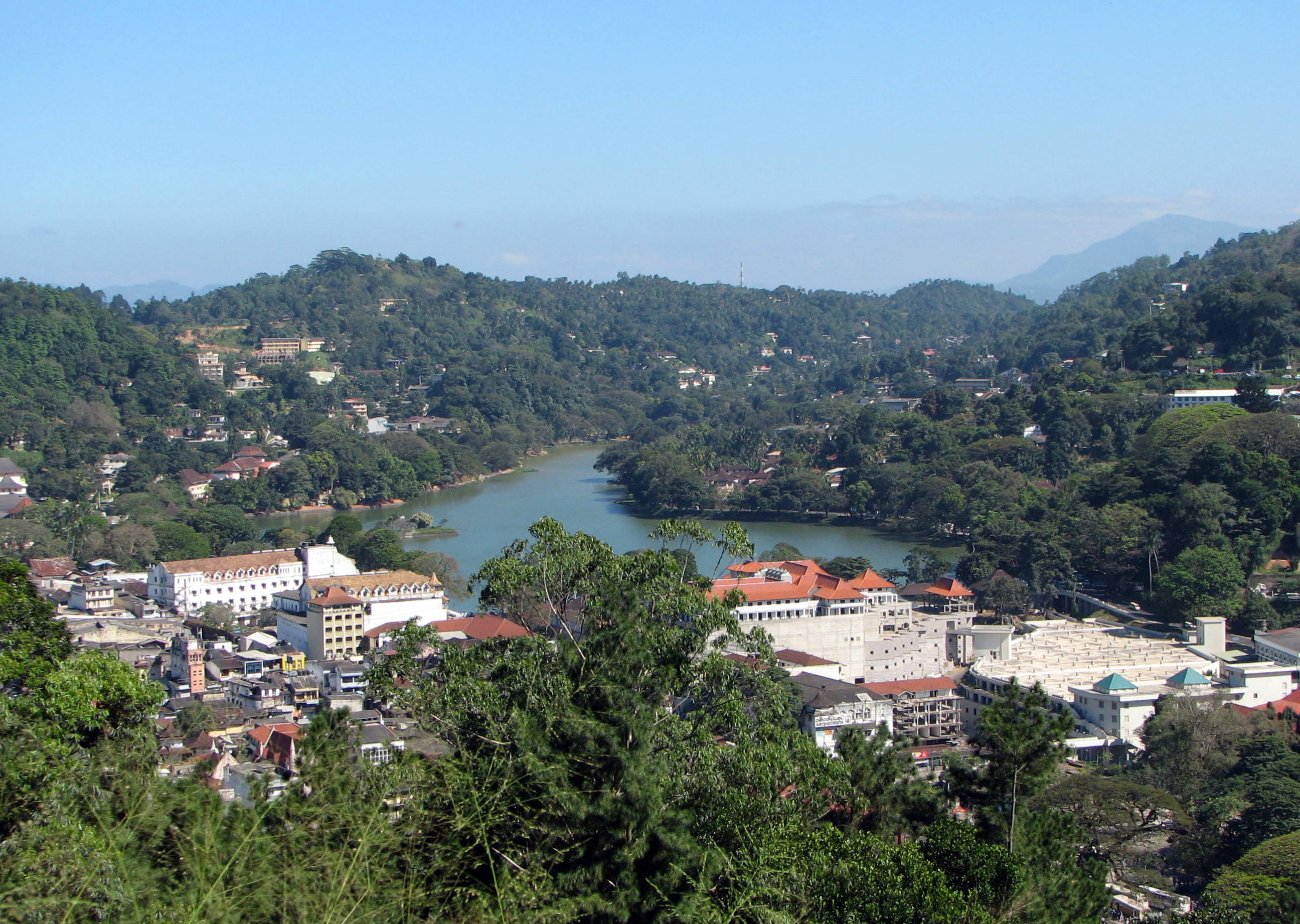 Kandy lake, Kandy, Sri Lanka